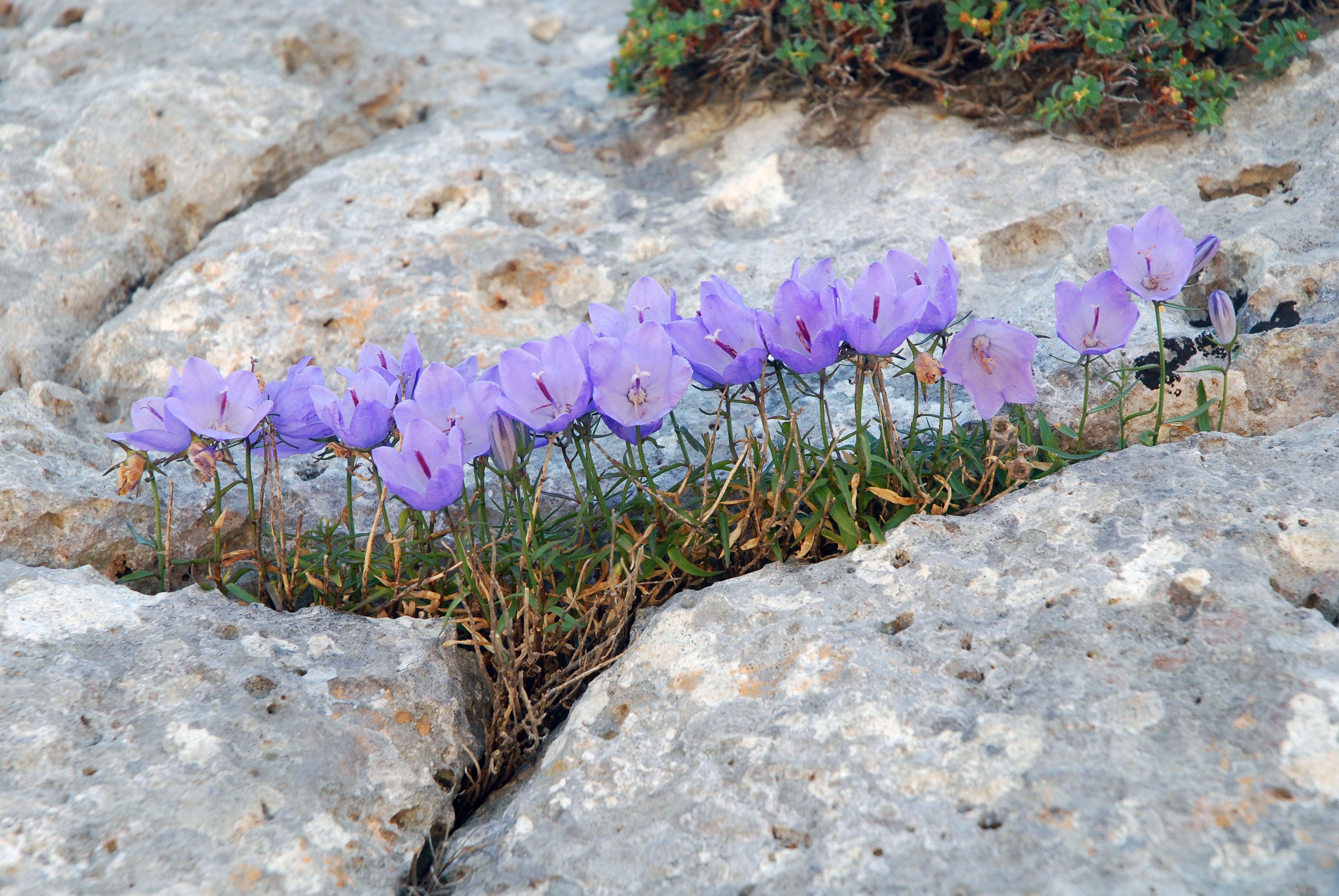 Campanula forsythii, Near Scala 'e Pradu, Supramonte, Sardinia, Italy